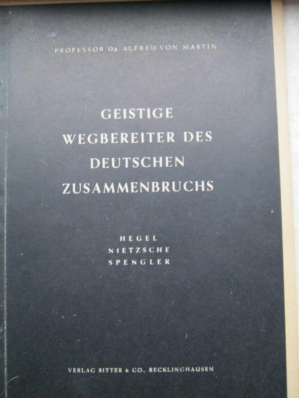 Alfred von Martin: Geistige Wegbereiter des deutschen Zusammenbruch, Titelseite einer Broschüre von 1948